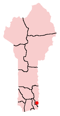 Sakété, Benin Location Map; created with the GIMP. Made by User:Acntx.